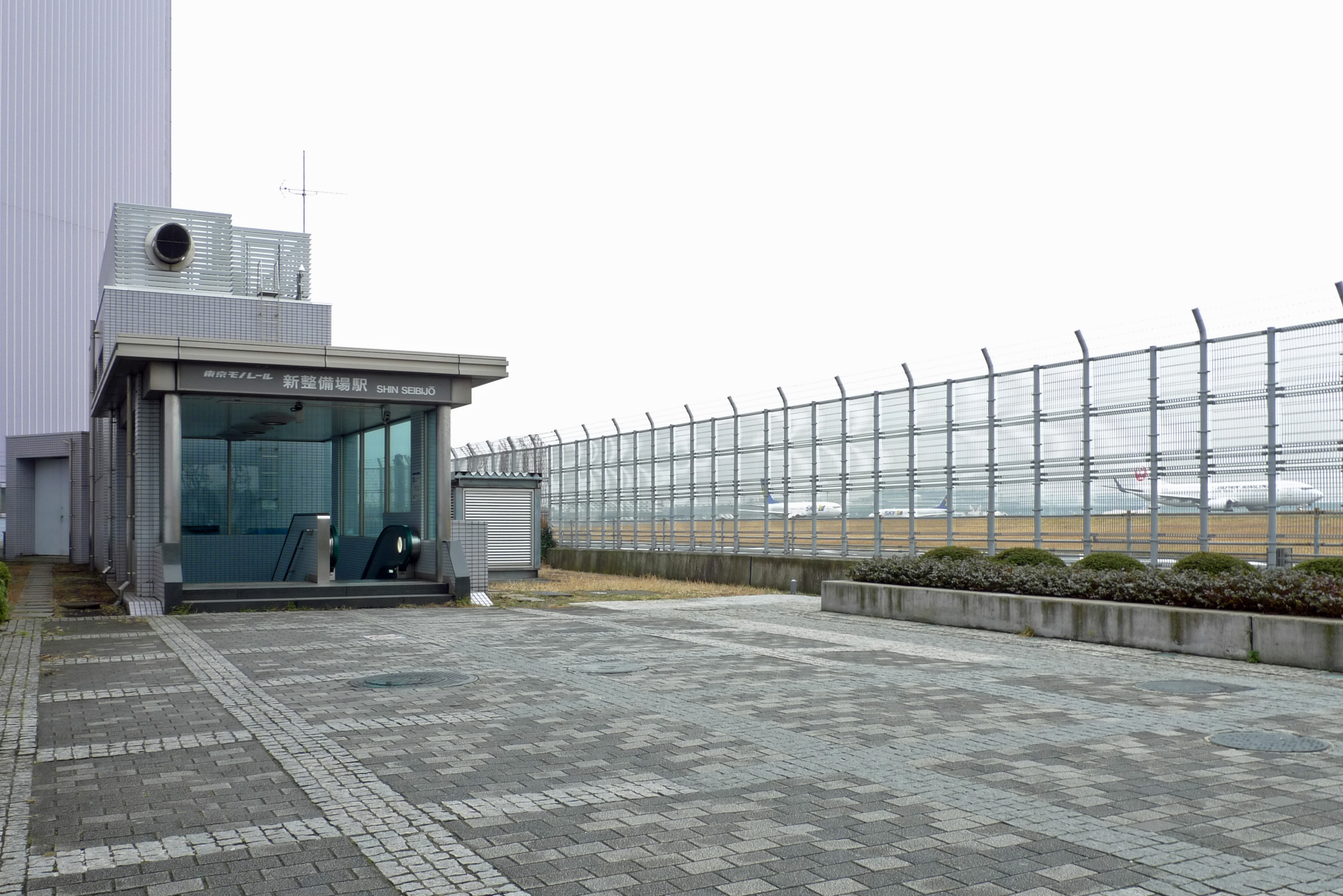 The entrance to Shin-Seibijo Station on the Tokyo Monorail